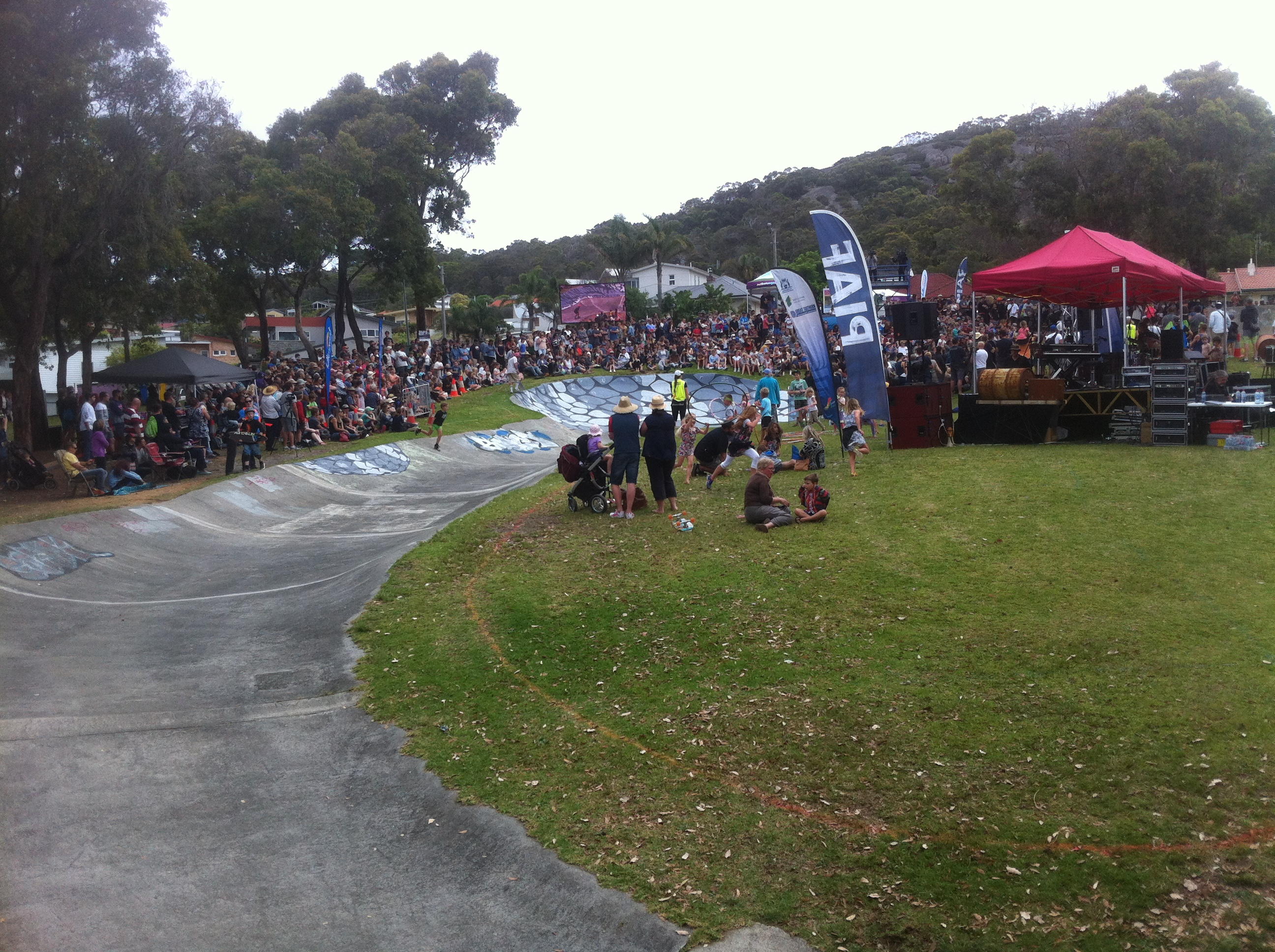 Near the bottom of the Snake Run in 2016 during 40th Anniversary celebrations.